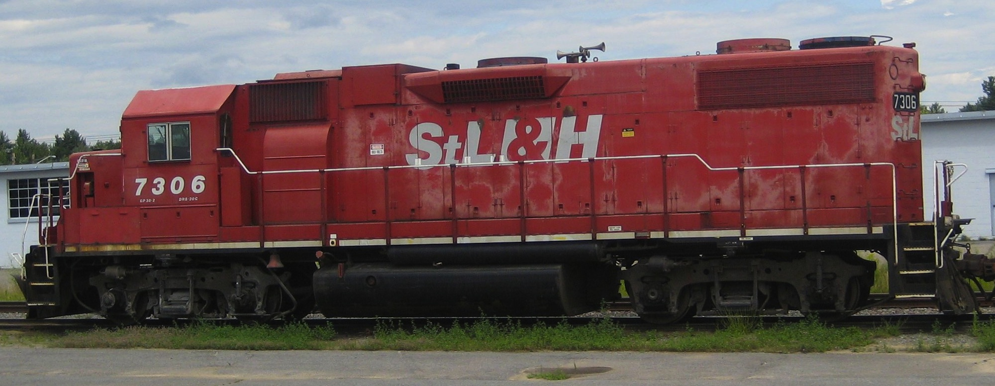 Found this power and crummy in the Plattsburgh Air Force Base, on the track that had been extended into the industrial park.